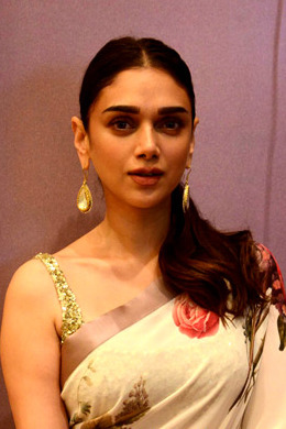 Aditi Rao Hydari grace Vogue Fashion Weekend in Delhi on August 06, 2017.